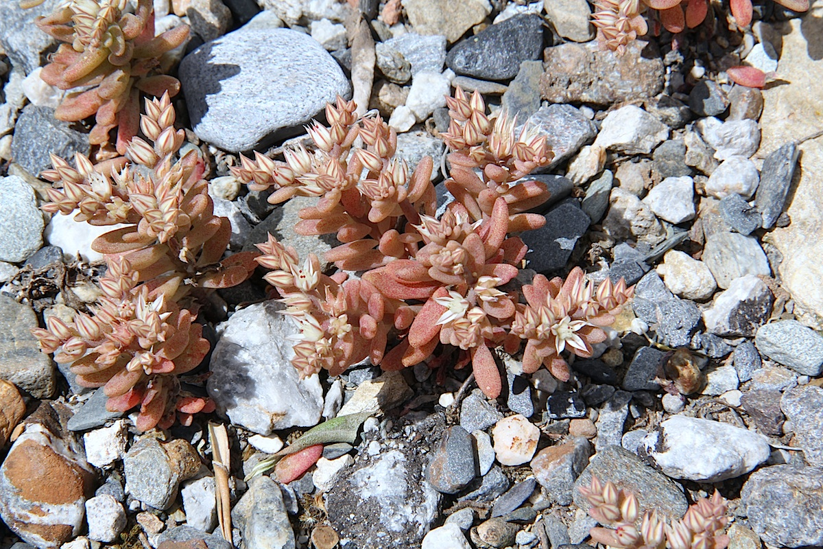 Sedum eriocarpum subsp. spathulifolium (det. User:RLJ)